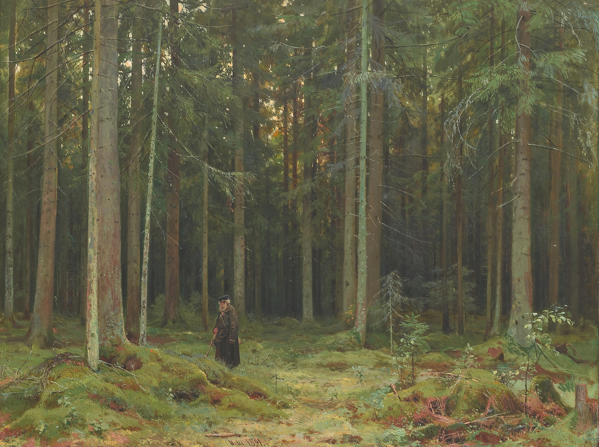 In the Forest of Countess Mordvinova. Petergof